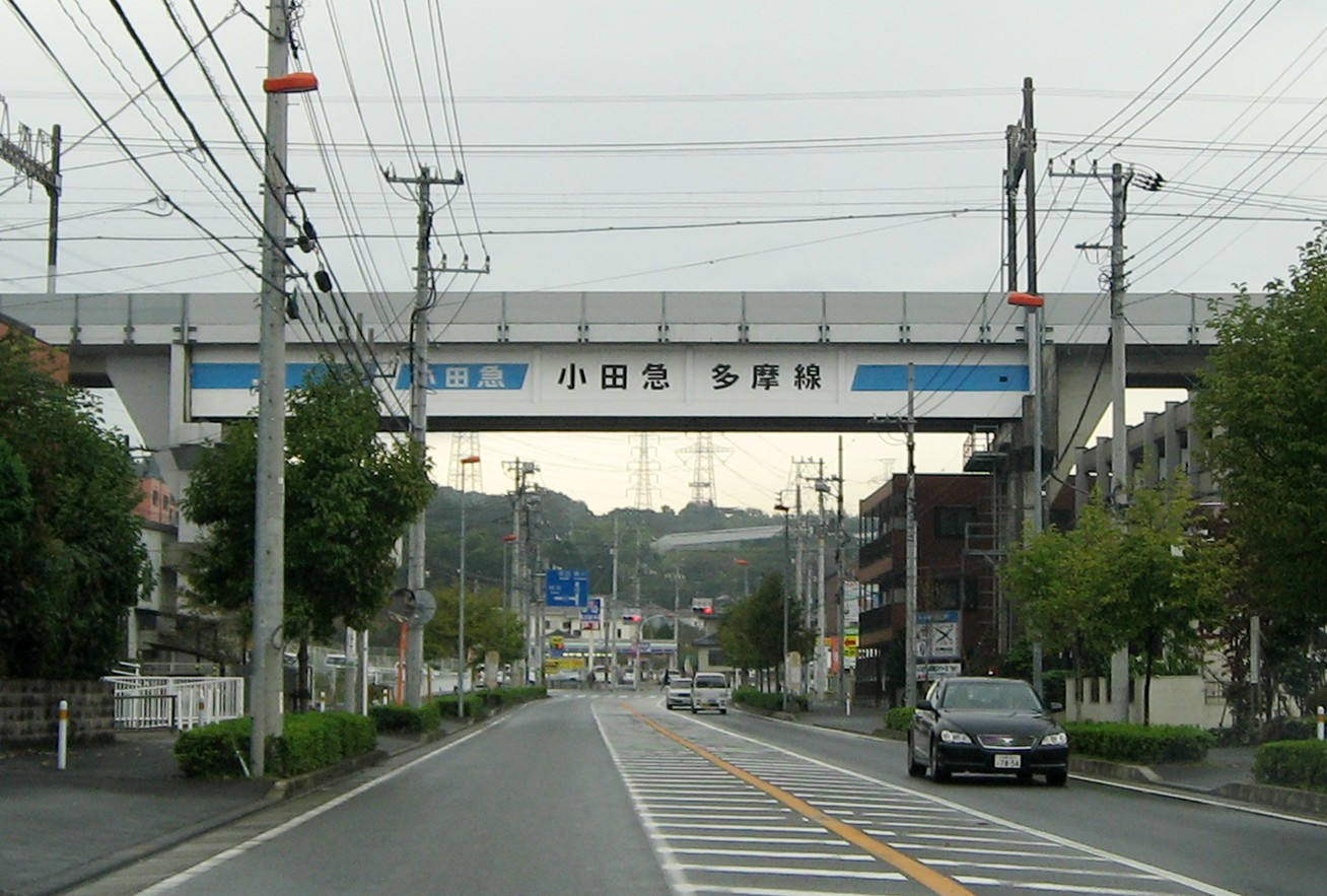 Bridge of Odakyu Tama Line over Tsurukuwa Kaido in Kawasaki, Kanagawa, Japan.